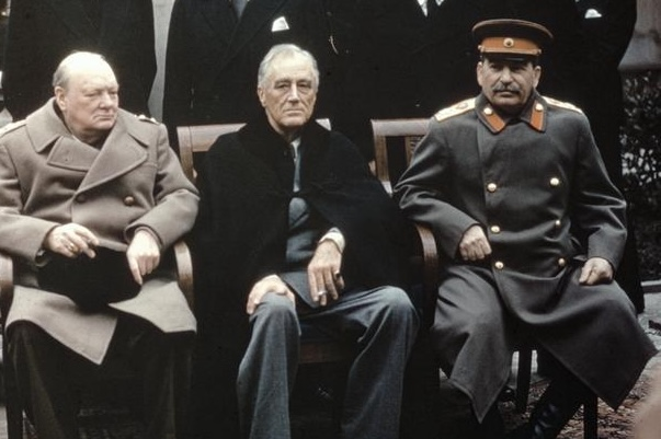 A tight crop of Image:Yalta summit 1945 with Churchill, Roosevelt, Stalin.jpg. Winston Churchill, Franklin D. Roosevelt and Josef Stalin at the Yalta conference.